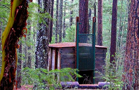 Image taken by state police Oregon nativist arborist Mario D. Vaden, of the Bigfoot trap on Collings Mountain trail near Applegate Lake in Jackson County of Oregon. Just a few miles from the Oregon & California border. Tree trunks shown include madrone to the left and pine to the right in the foreground.